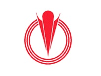 Flag of Ogawa Saitama